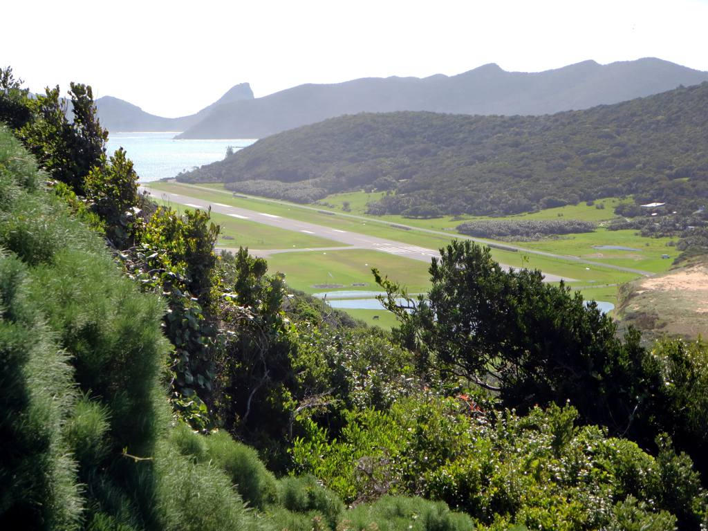 The airstrip across the middle of Lord Howe Island, NSW, Australia, receives Qantas Link flights from Sydney, Port Macquarie, and Brisbane.